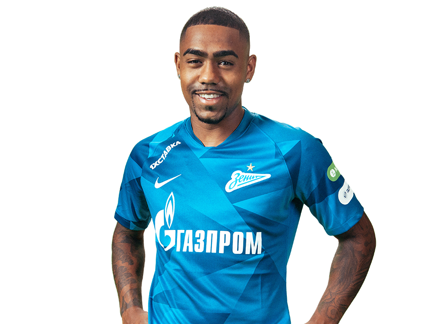 Malcom in Zenit, August 2, 2019